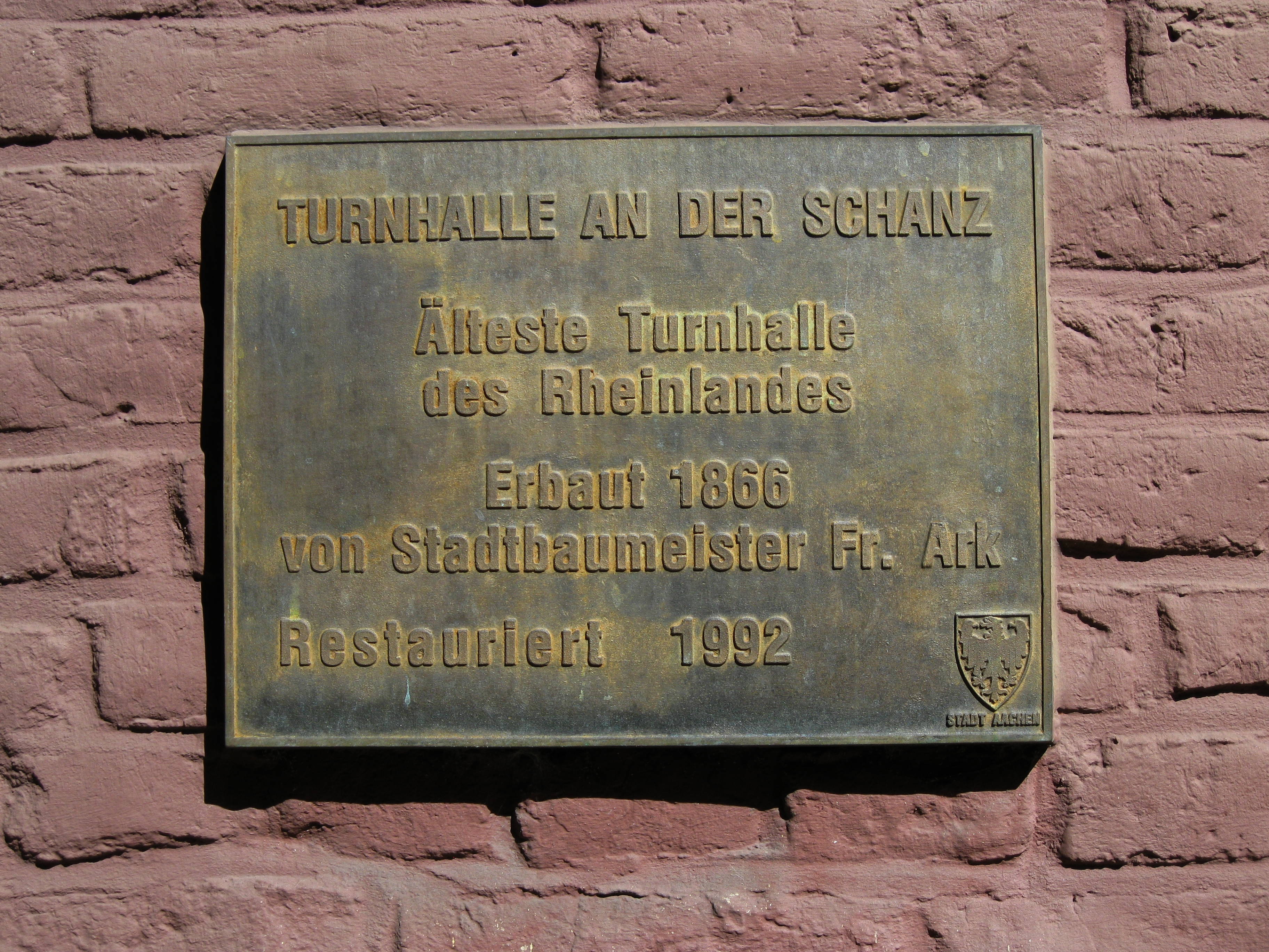 Memorial tablet at the sports hall near Schanz (Aachen)